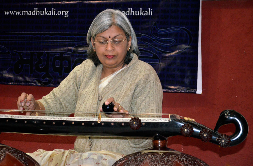 Dr. Ragini Trivedi playing Raga Gunakali on Vichitra Veena at Madhukali Concert for Conservation in Indore, MP India. January 2012